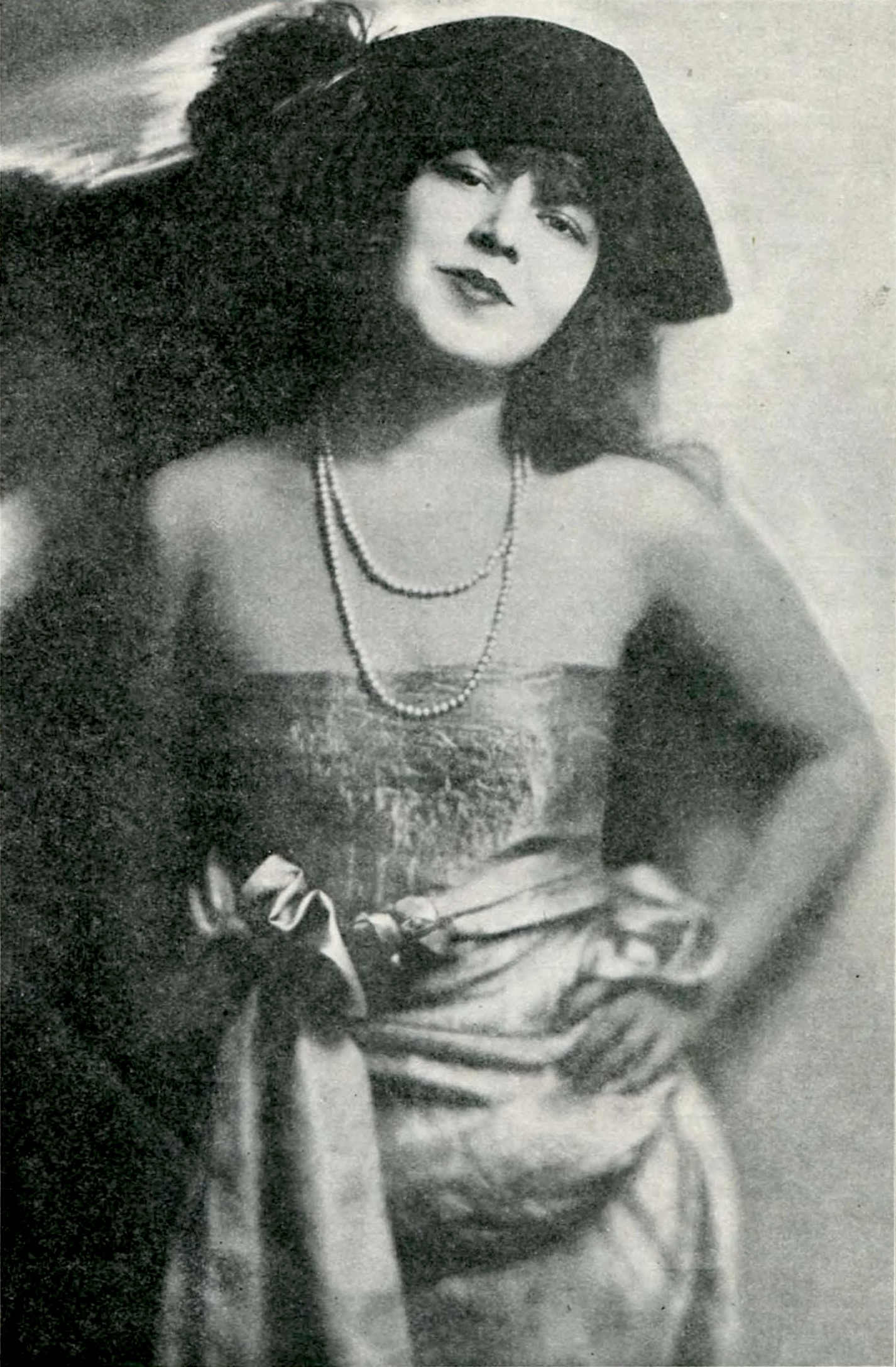 Actress Ann Pennington on page 11 of the August 1920 The Tatler.